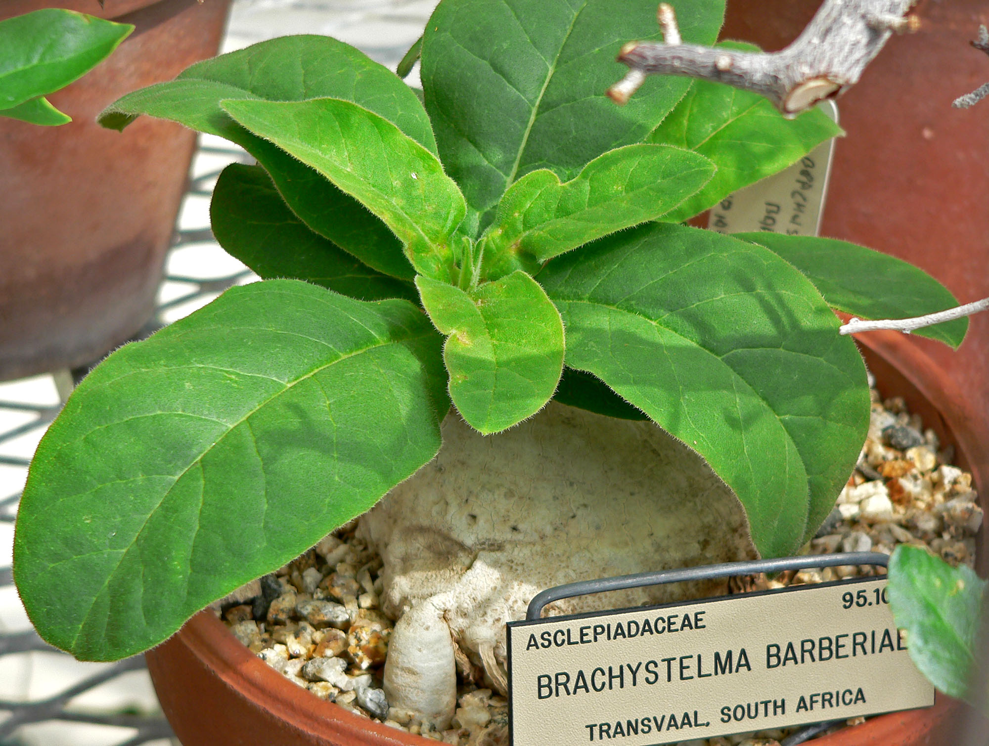 Brachystelma barberae at the University of California Botanical Garden, Berkeley, California